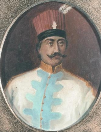 Admiral Lambros Katsonis